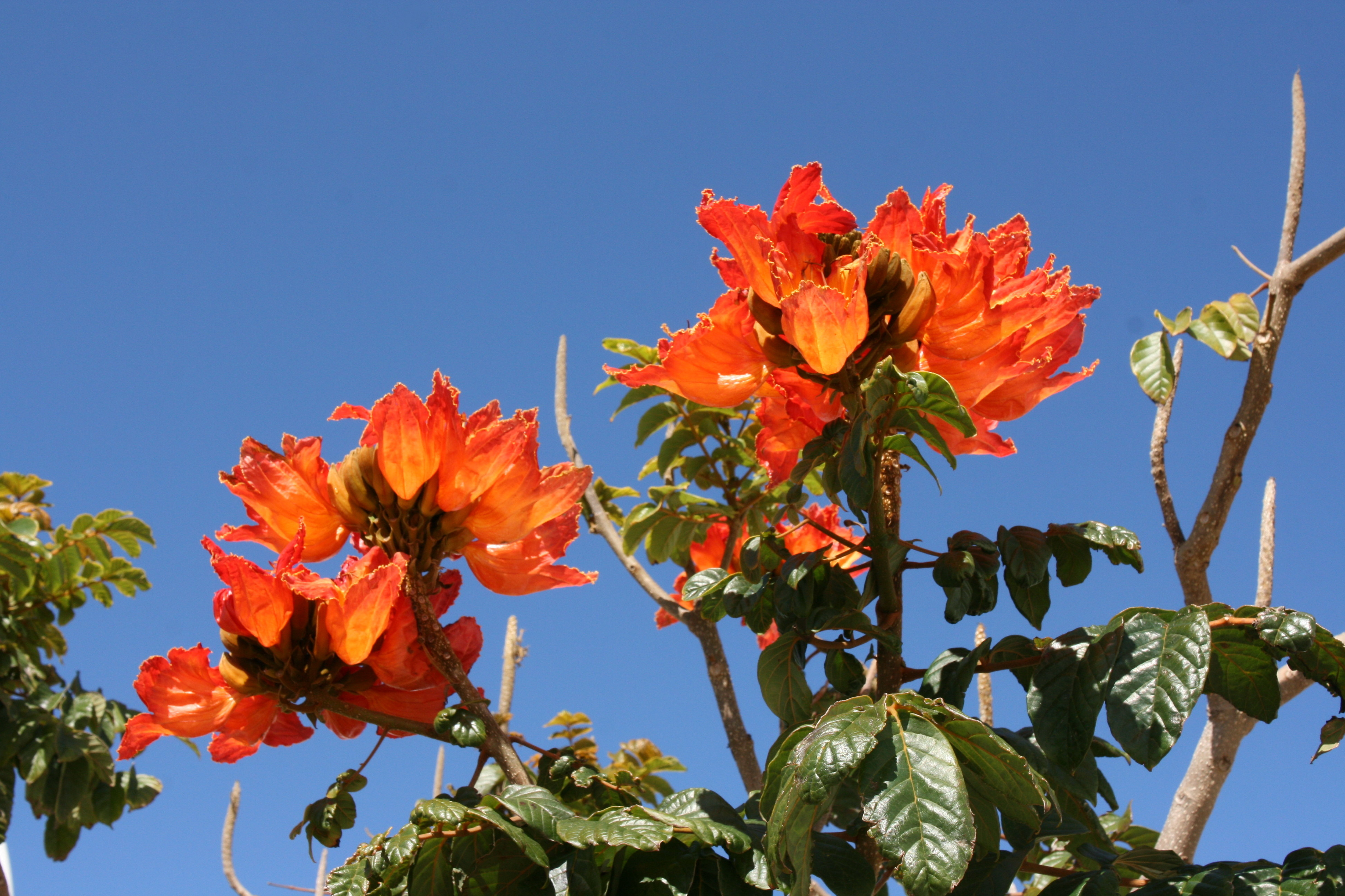 Calle Doctor Cerdeña Bethencourt in San Bartolomé, Lanzarote, Canary Islands